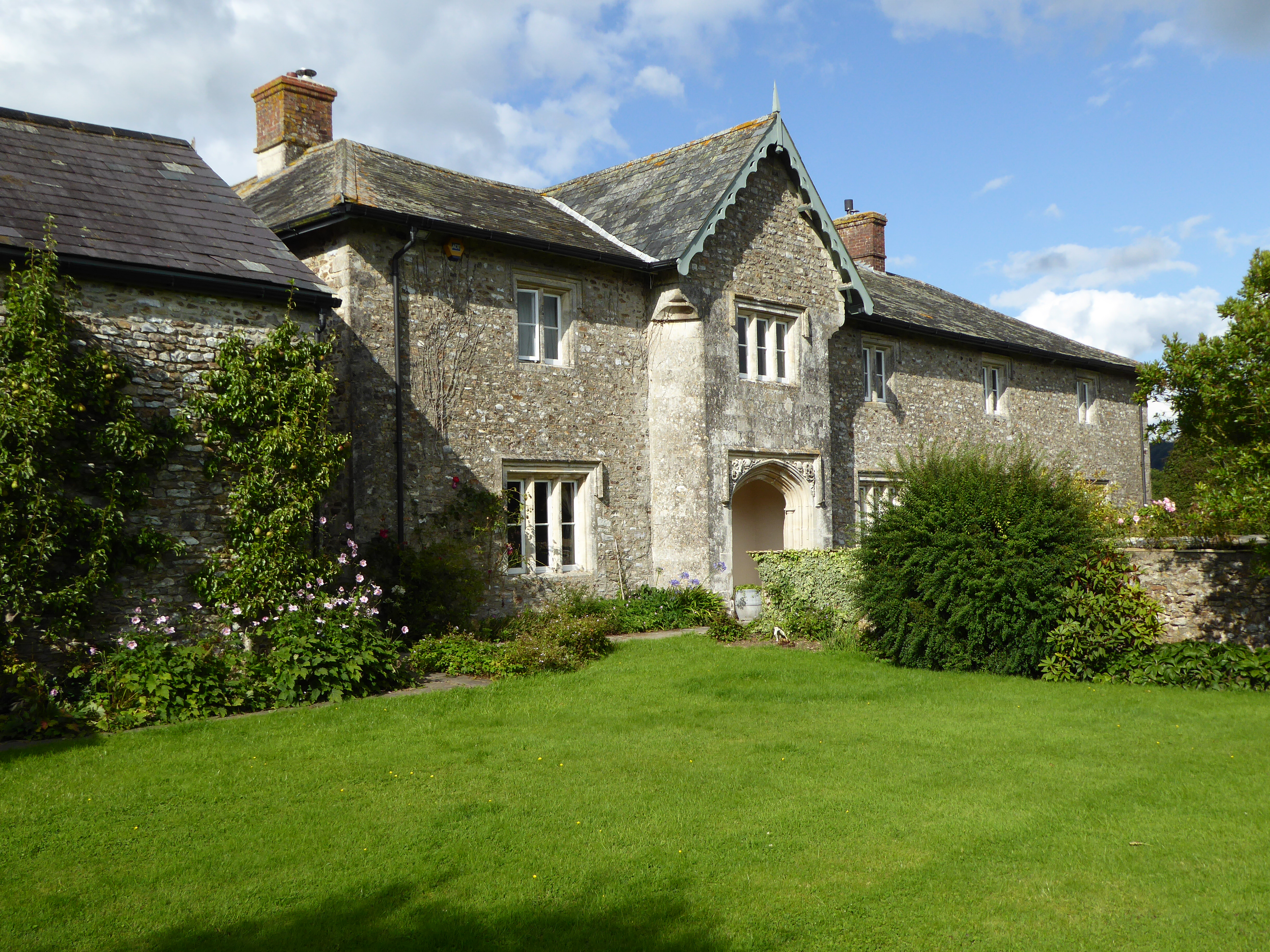 Mohun's Ottery in the parish of Luppitt, Devon, south (entrance) front. Rebuilt 1868 after original mediaeval manor house of Mohun and Carew families destroyed by fire. (Pevsner, Nikolaus & Cherry, Bridget, The Buildings of England: Devon, London, 2004, p.543)